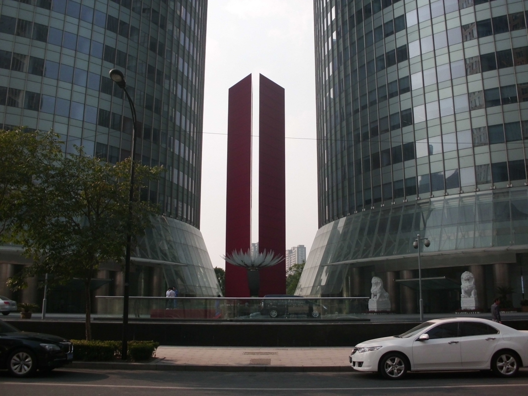 ZheJiang Fortune & Finance Center